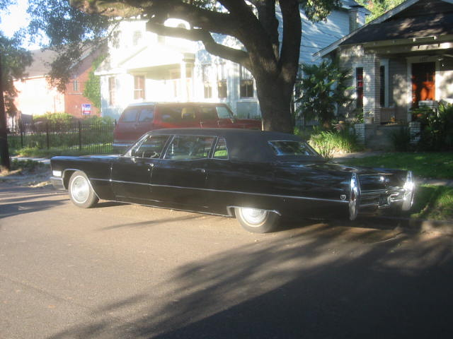 Cadillac Fleetwood Series 75 Limousine 1968